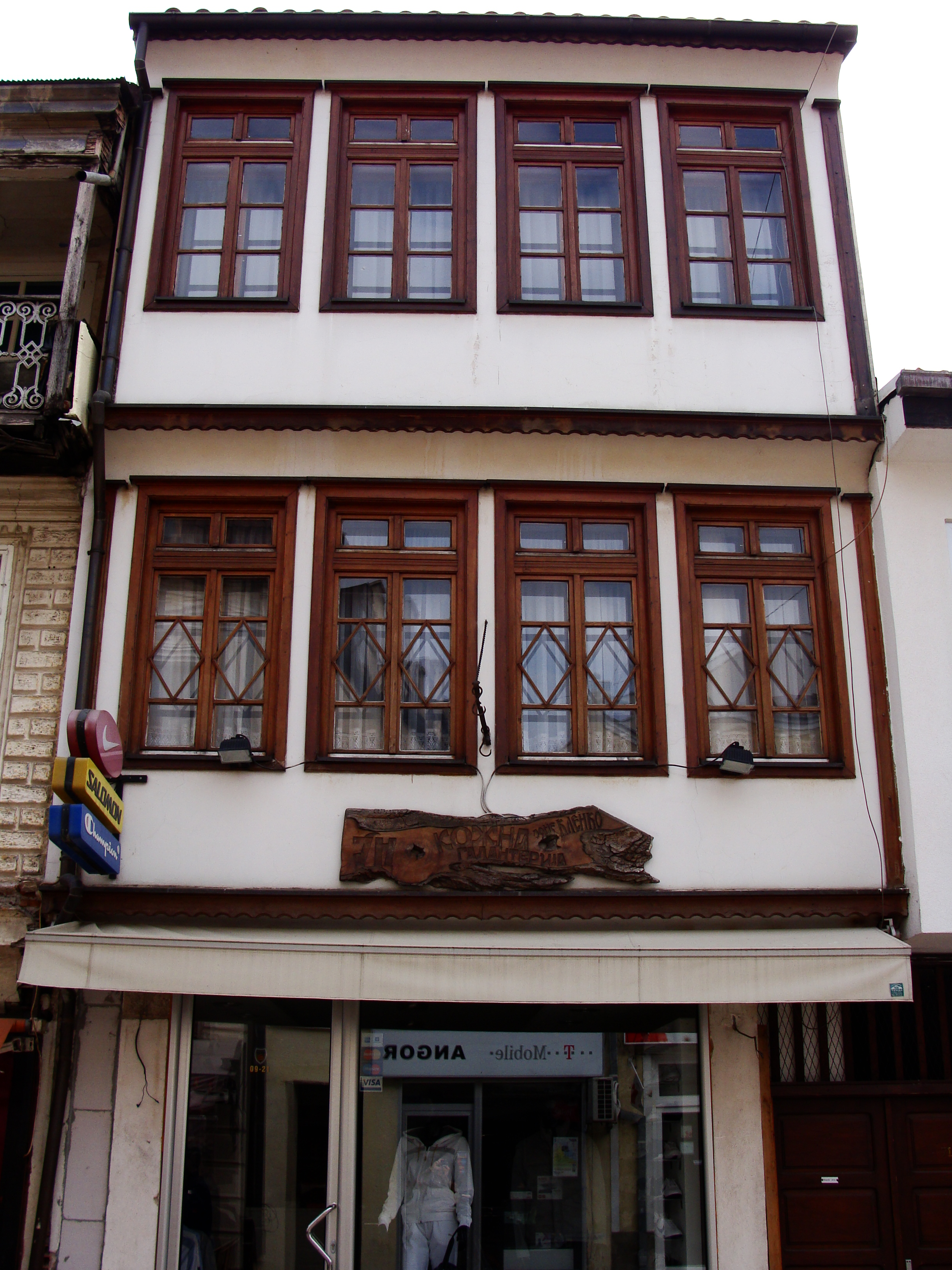 Struga, Architecture